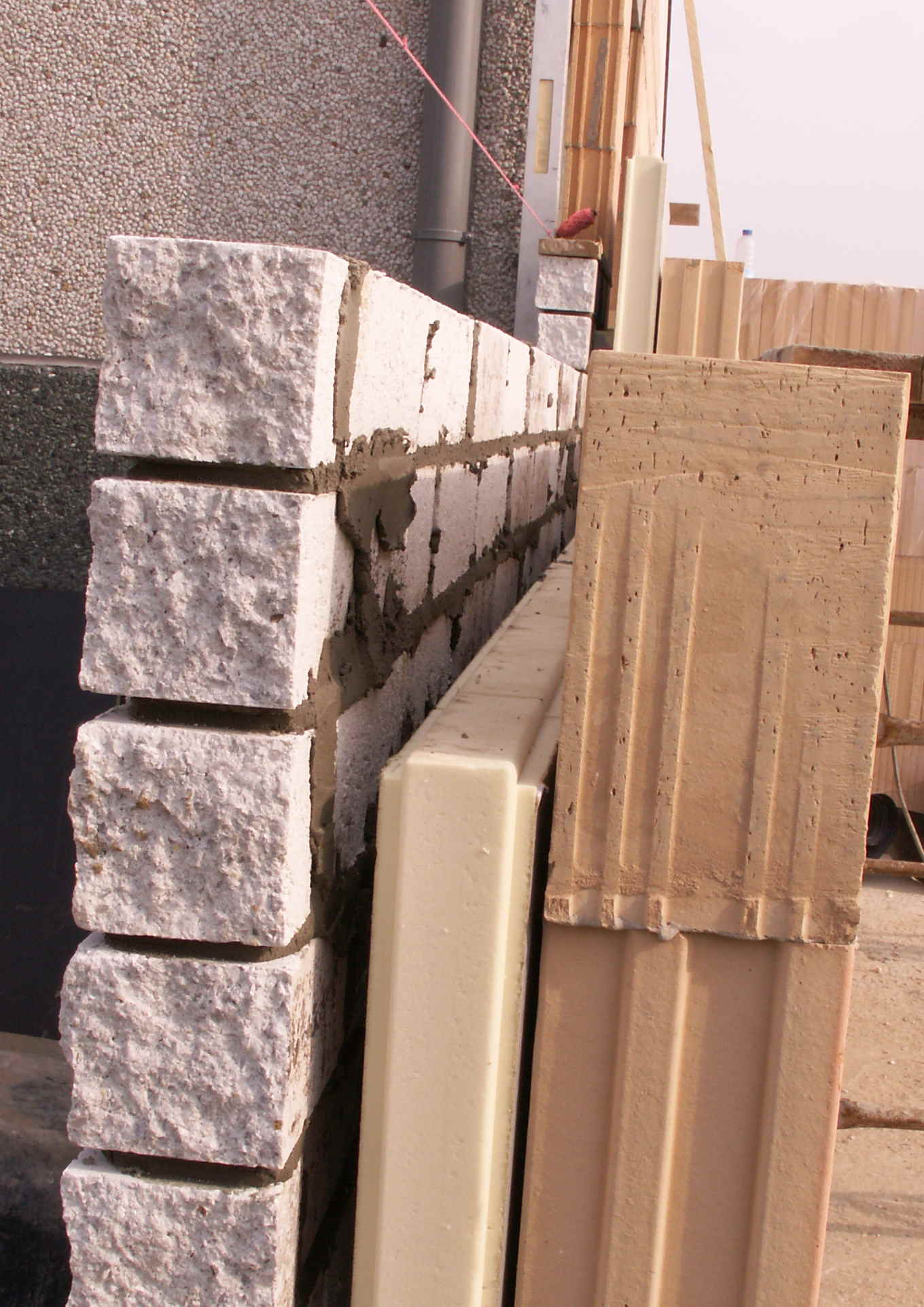 A picture of polyurethane used as an isolator in construction. This isolator is not only environmentally damaging, but also quite expensive and wasteful (a lot of blocks unavoidably wind up being cut up. As such they become too small to be used in the building and thus need to be thrown away)